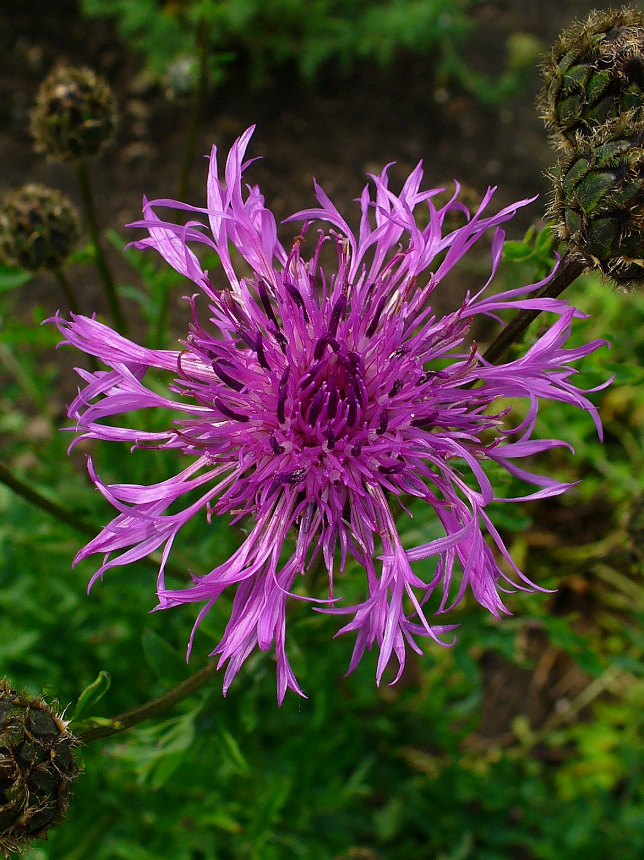 Centaurea stoebe, Asteraceae, Spotted Knapweed, inflorescence; Botanical Garden KIT, Karlsruhe, Germany.